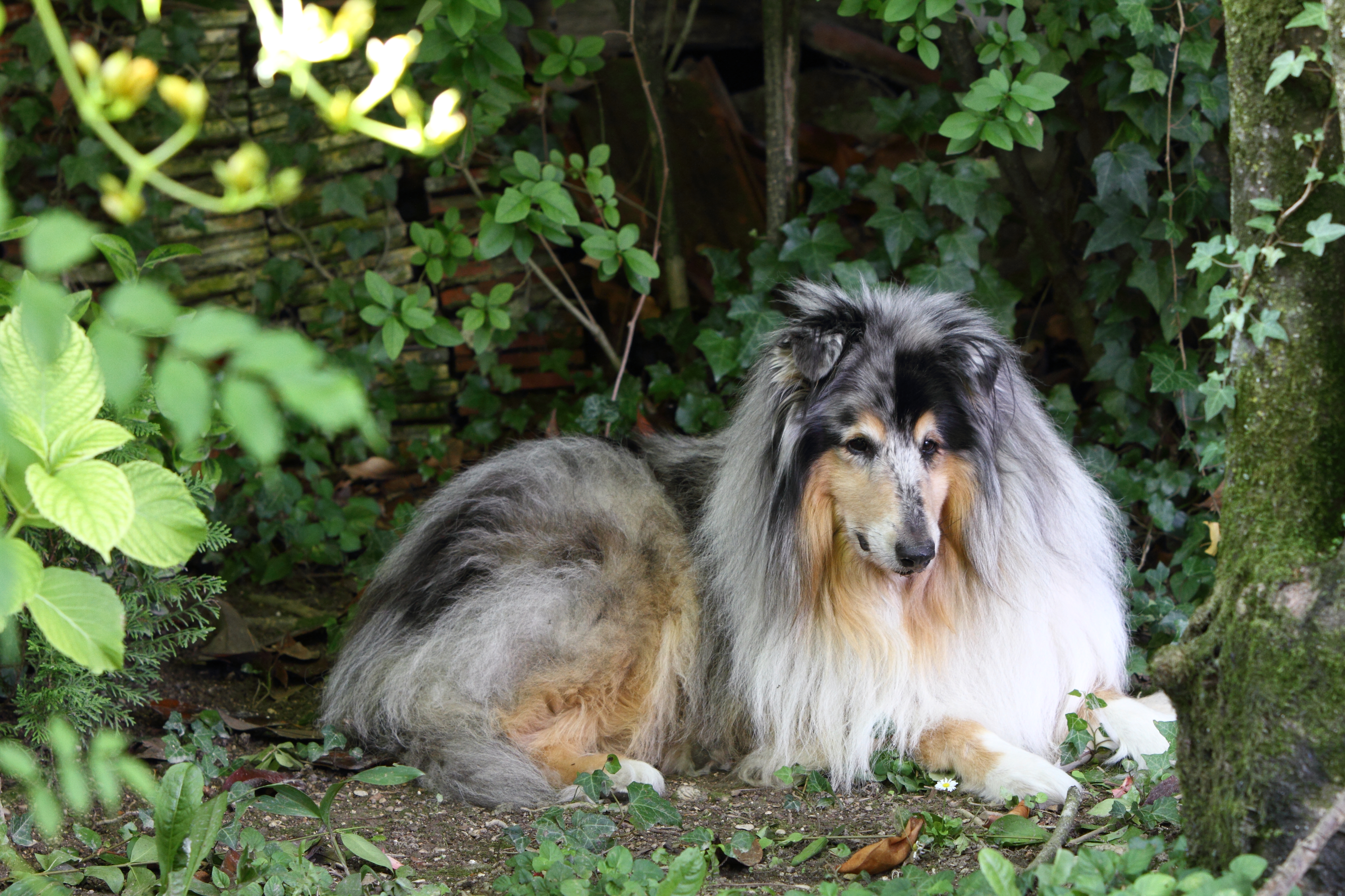 Rough Collie